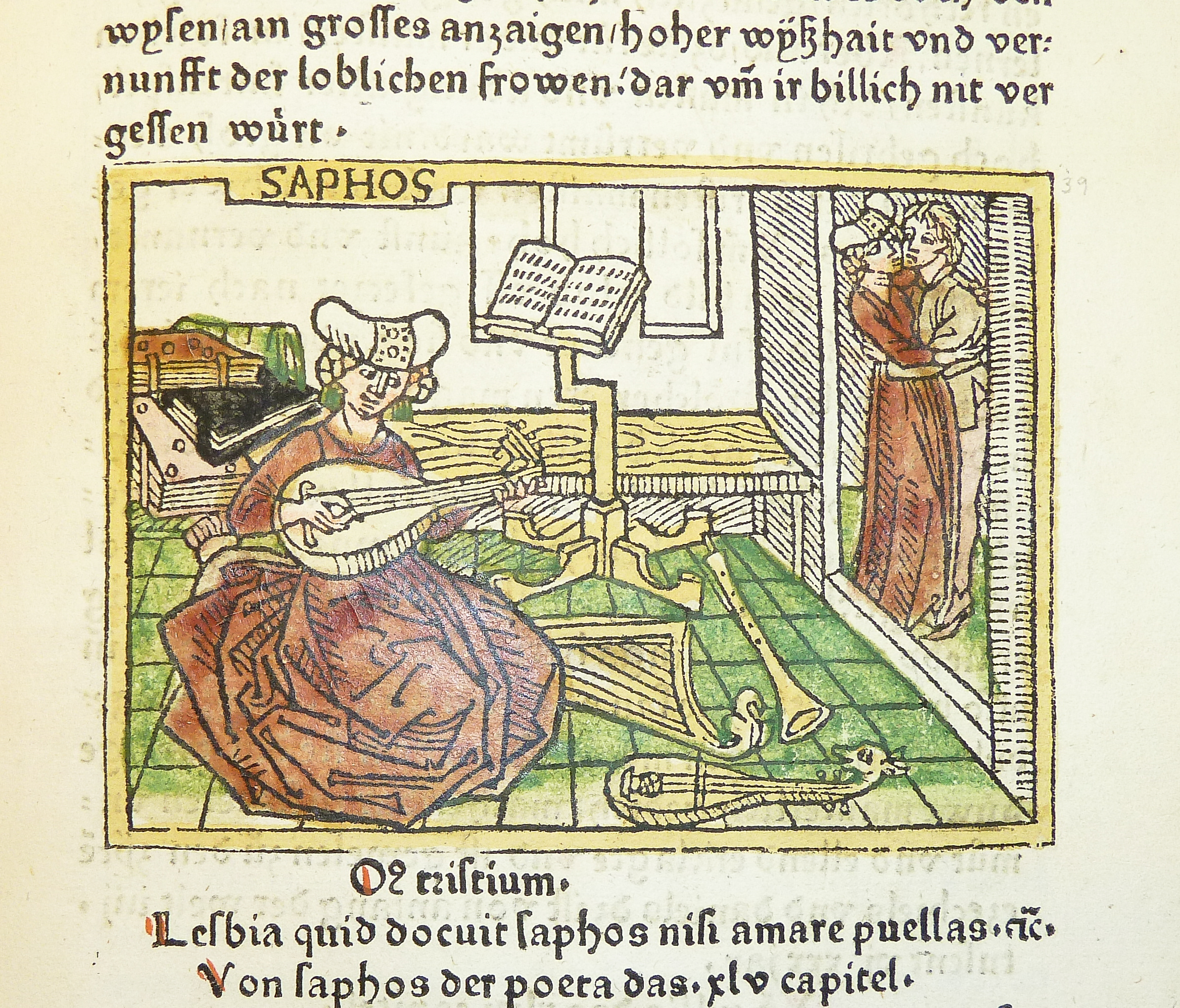 Woodcut illustration from an incunable German translation by Heinrich Steinhöwel of Giovanni Boccaccio's De mulieribus claris. 1474